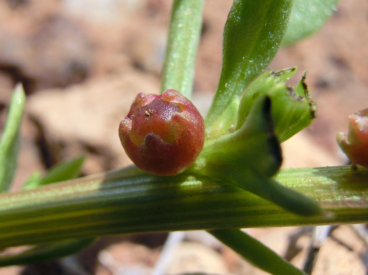 Patellifolia patellaris, fruit. NW Tenerife, Teno Bajo near Punta de Teno, open coastal succulents shrubland, ca. 20 m above sea level.